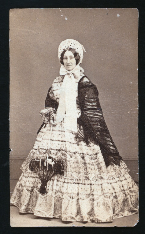 Fanny Elizabeth Vining Davenport